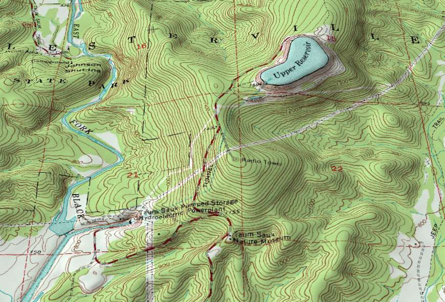 An oblique topographic view of the Taum Sauk pumped storage plant. The upper reservoir failed in a catastrophic manner in 2005, destroying part of the neighboring state park. As of 2009 the electrical utility which owns the plant is planning to rebuild the reservoir. When operational, water from the East Fork Black River is pumped to the reservoir atop of Proffit Mountain at night. During periods of peak daytime demand the hydroelectric plant at the bottom of the mountain can use this to generate over 400MW of power. The water flows through a 7000-foot tunnel connecting the upper reservoir to the power plant. Water for pump-back is stored in a lower reservoir on the river (south of the bounds of this image). Johnson Shut-ins State Park is a short ways upstream from the power plant. For scale, the large numbered red squares (21, 22, etc.) on this topographic map are one square mile (2.6 km²) survey sections. Created by Kbh3rd for Wikipedia with public domain data from the USGS for the 7.5" Johnson Shutins, Missouri, topographic quadrangle (37090E7). This image was created with the 3DEM program. This image was originally uploaded to the English Wikipedia before being uploaded to Wikimedia Commons by the original uploader and copyright holder, Kbh3rd.